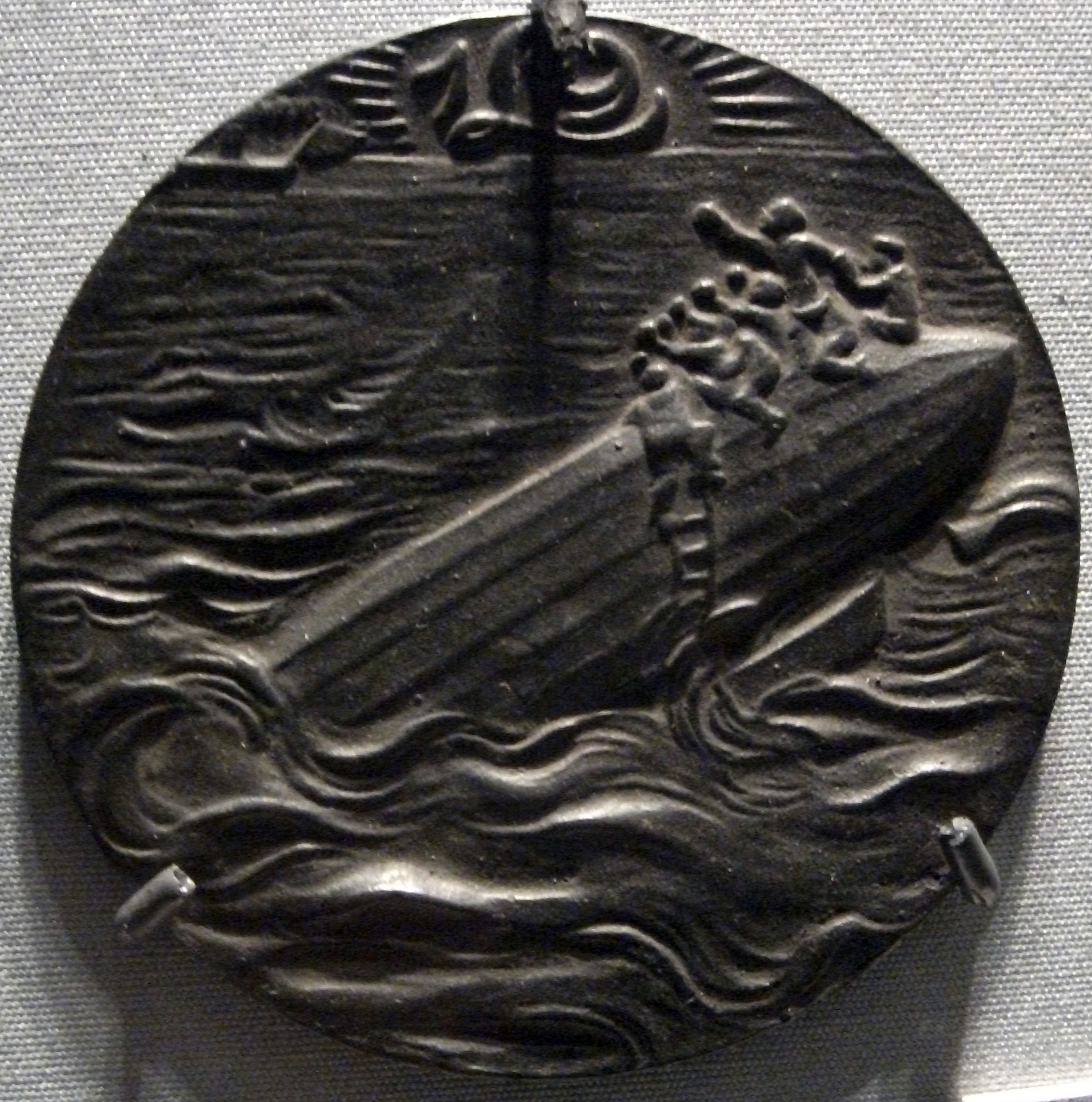 Medal by Karl Goetz, on the Loss of Zeppelin L 19. info British Museum exhibition: "The other side of the medal: how Germany saw the First World War", 9 May – 23 November 2014